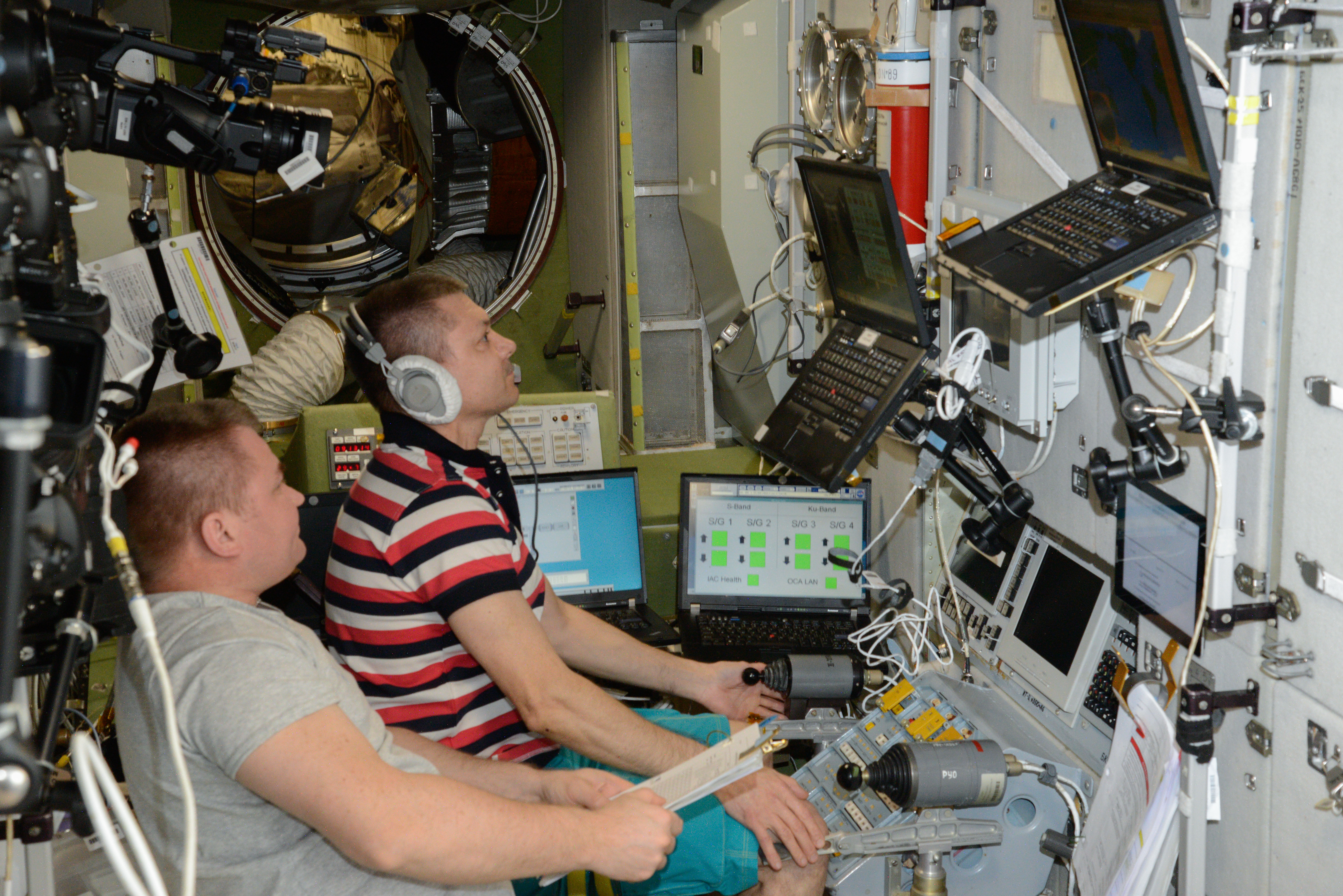 Flight Engineer Alexey Ovchinin and Commander Oleg Kononenko, both cosmonauts from Roscosmos, train for the arrival of the Russian Progress 72 (72P) resupply ship. The Expedition 59 duo inside the Zvezda service module practiced using the TORU, a backup manual docking system, to guide the 72P to a docking in the unlikely event the resupply ship’s automatic Kurs docking system failed.